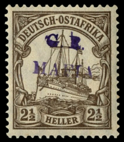 Postage stamp of German East Africa overprinted for Mafia island by British occupation forces, SMY Hohenzollern, 2,5 hellers, 1915